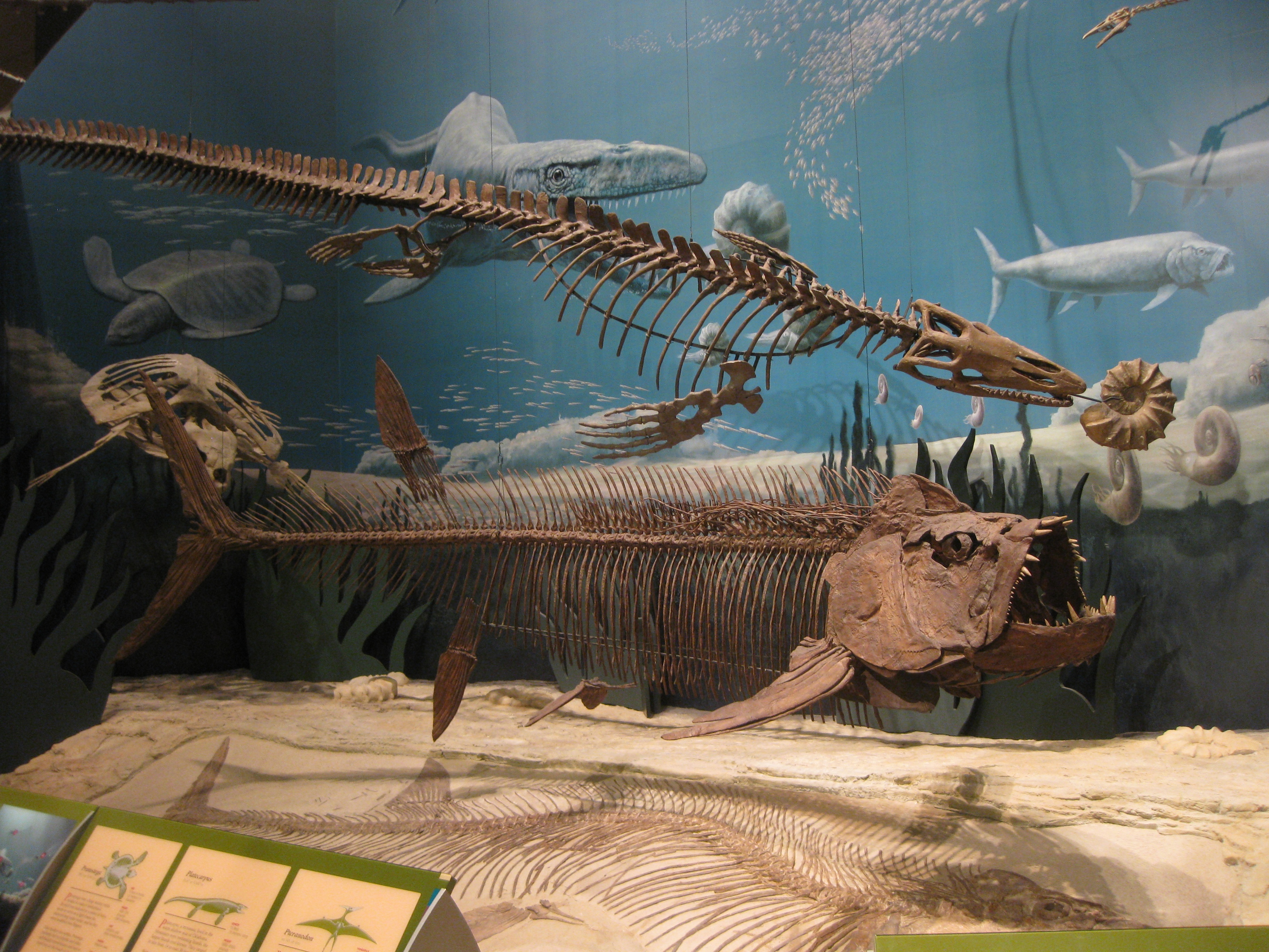 Sam Noble Oklahoma Museum of Natural History, Norman, Oklahoma